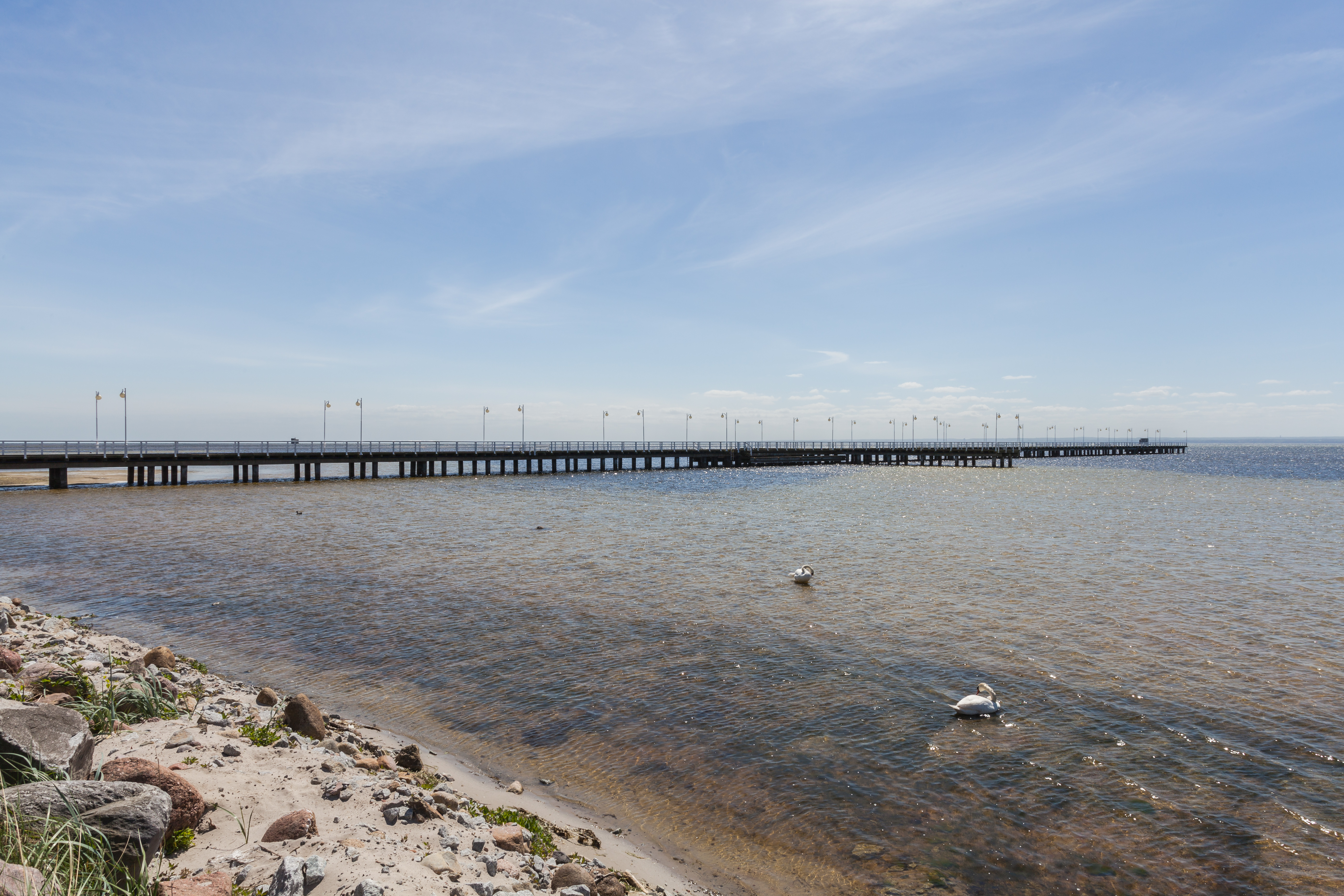 Promenade pier of Jurata, Hel Peninsula, Poland